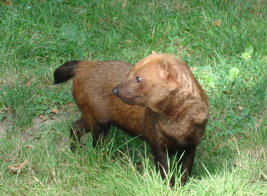 Bush dog in Prague Zoo